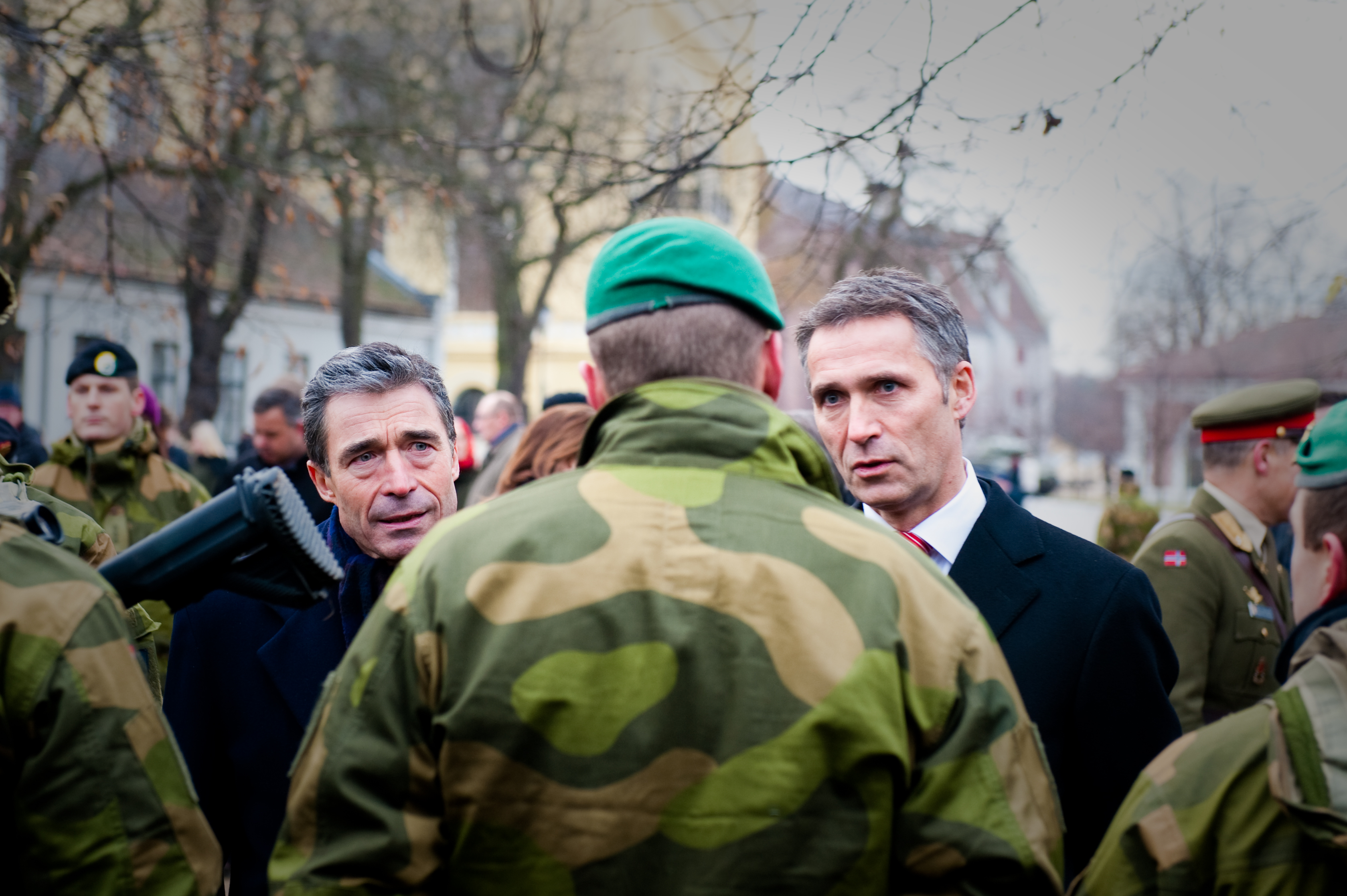 Picture of Jens Stoltenberg in a Northern village